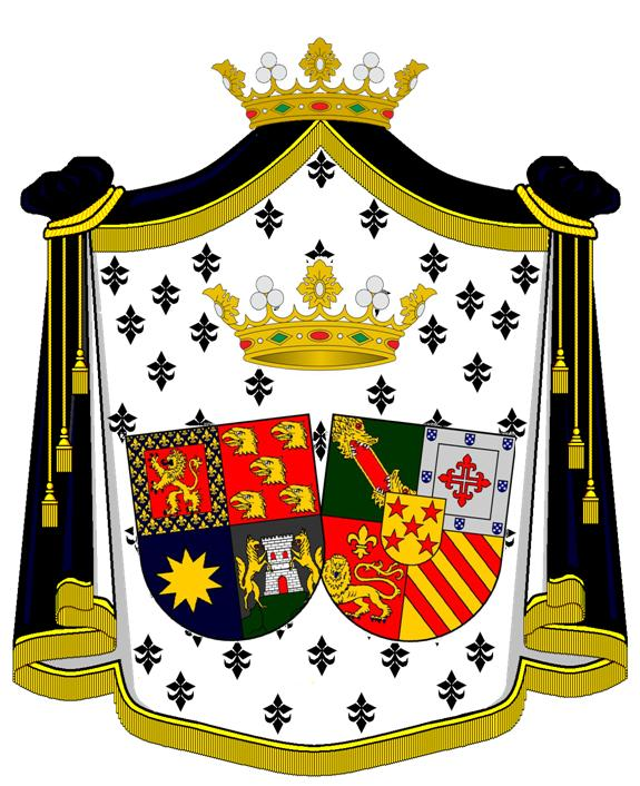 Coat of arms of the Marquesses of Praia and Monforte